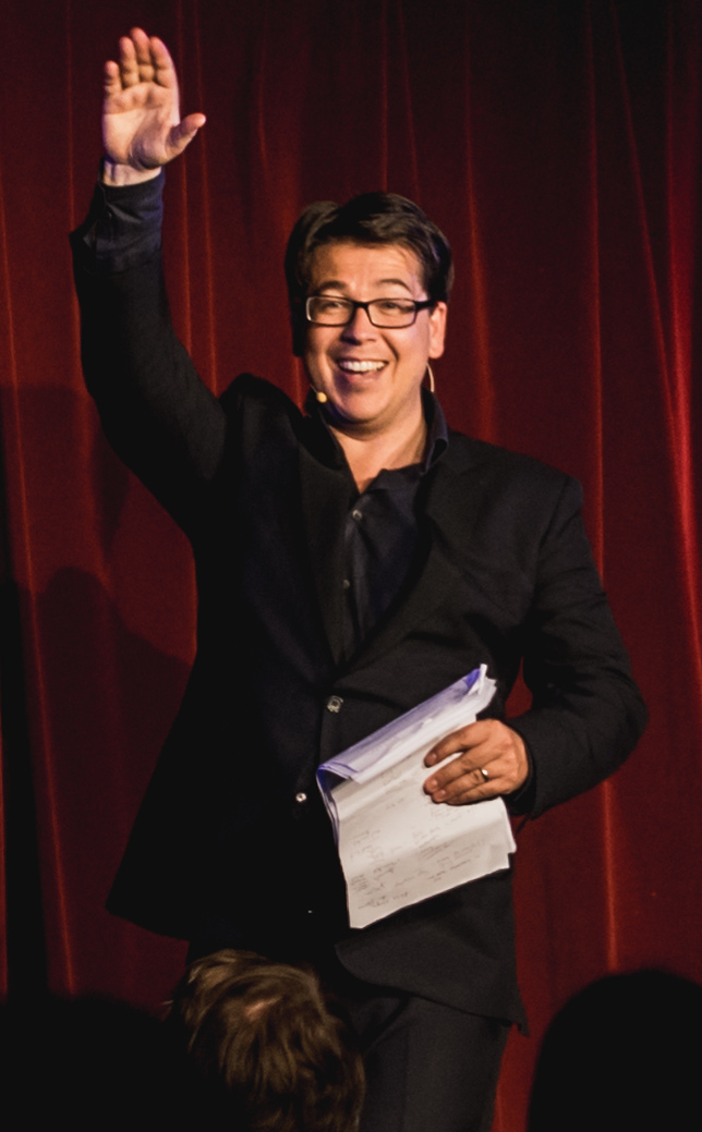 McIntyreSoho150517-10